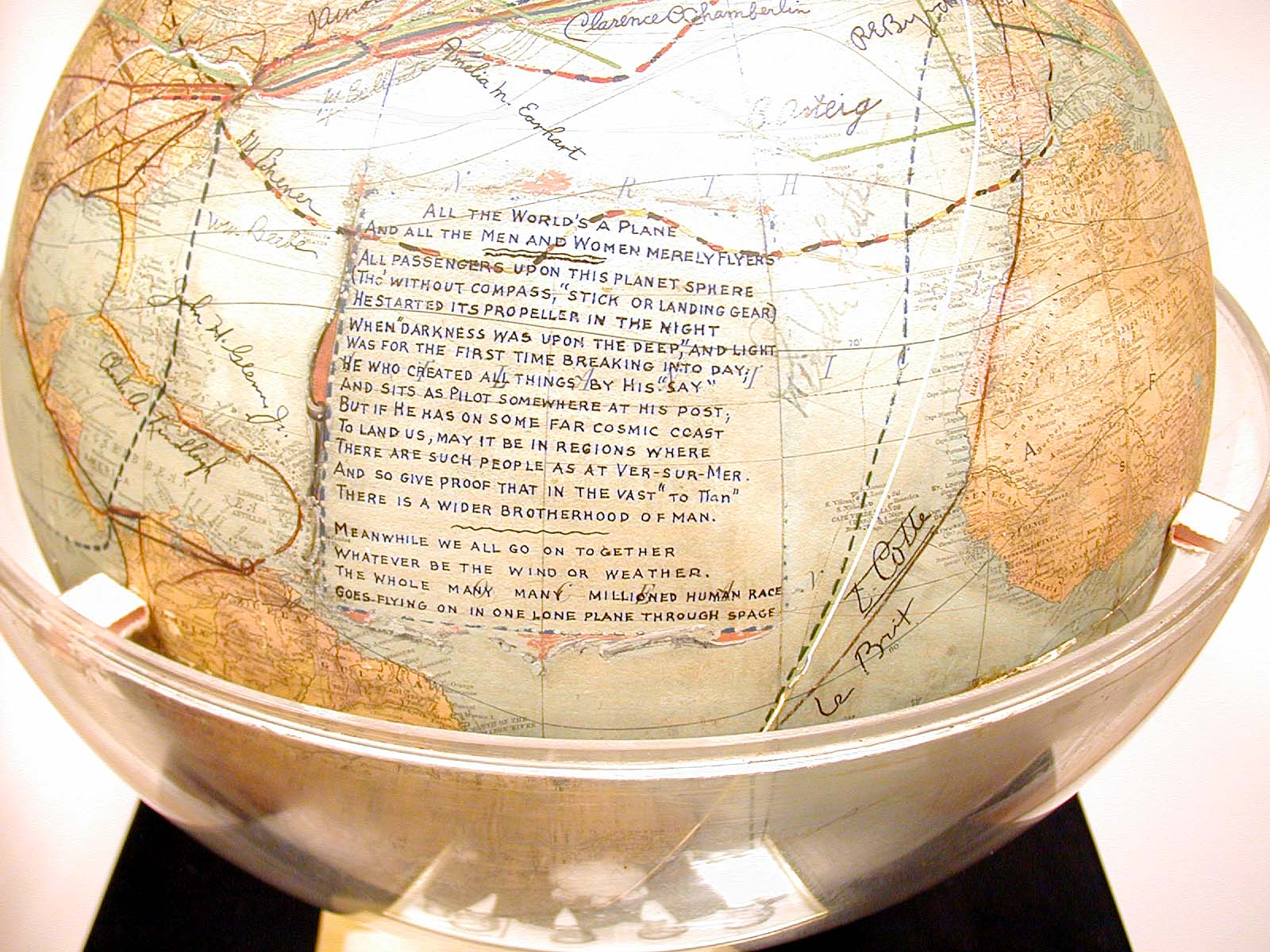 Signer's Globe